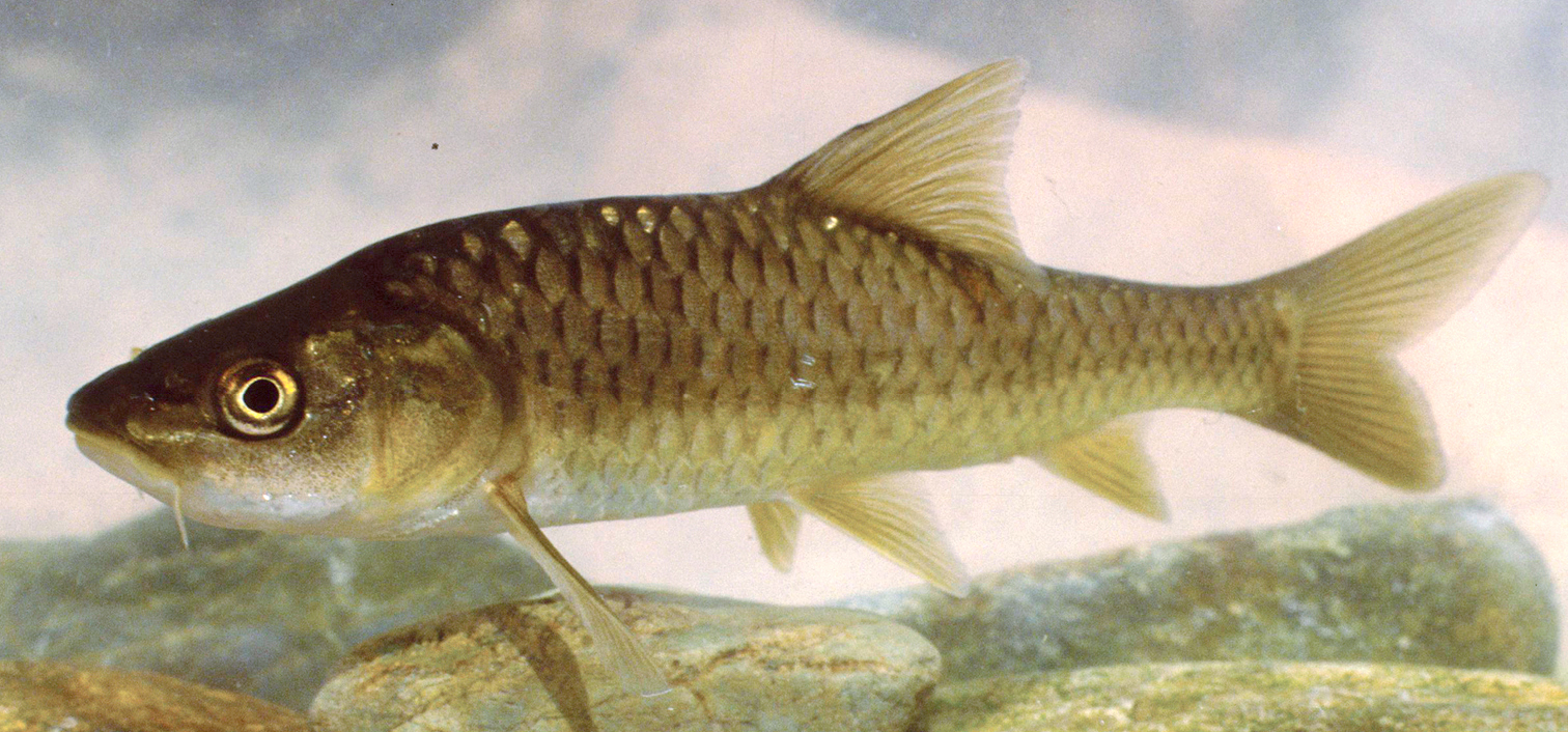 Carasobarbus apoensis, live specimen from Wādī Turabah, Saudi Arabia.